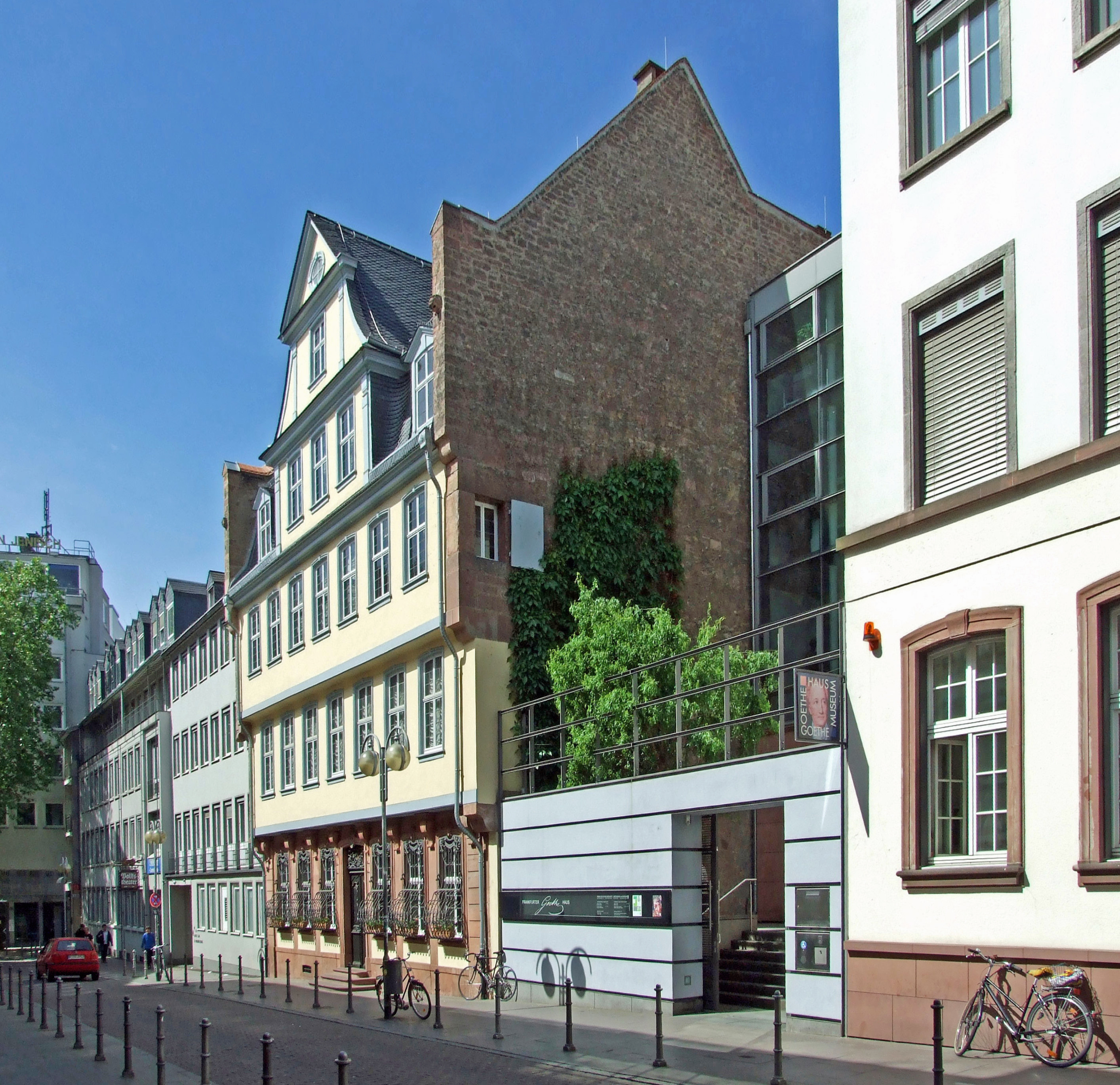 Goethe-House, Grosser Hirschgraben, Frankfurt am Main Innenstadt